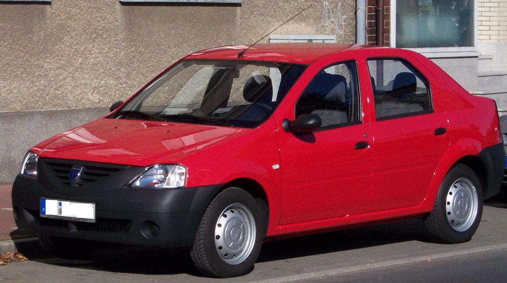 Dacia Logan